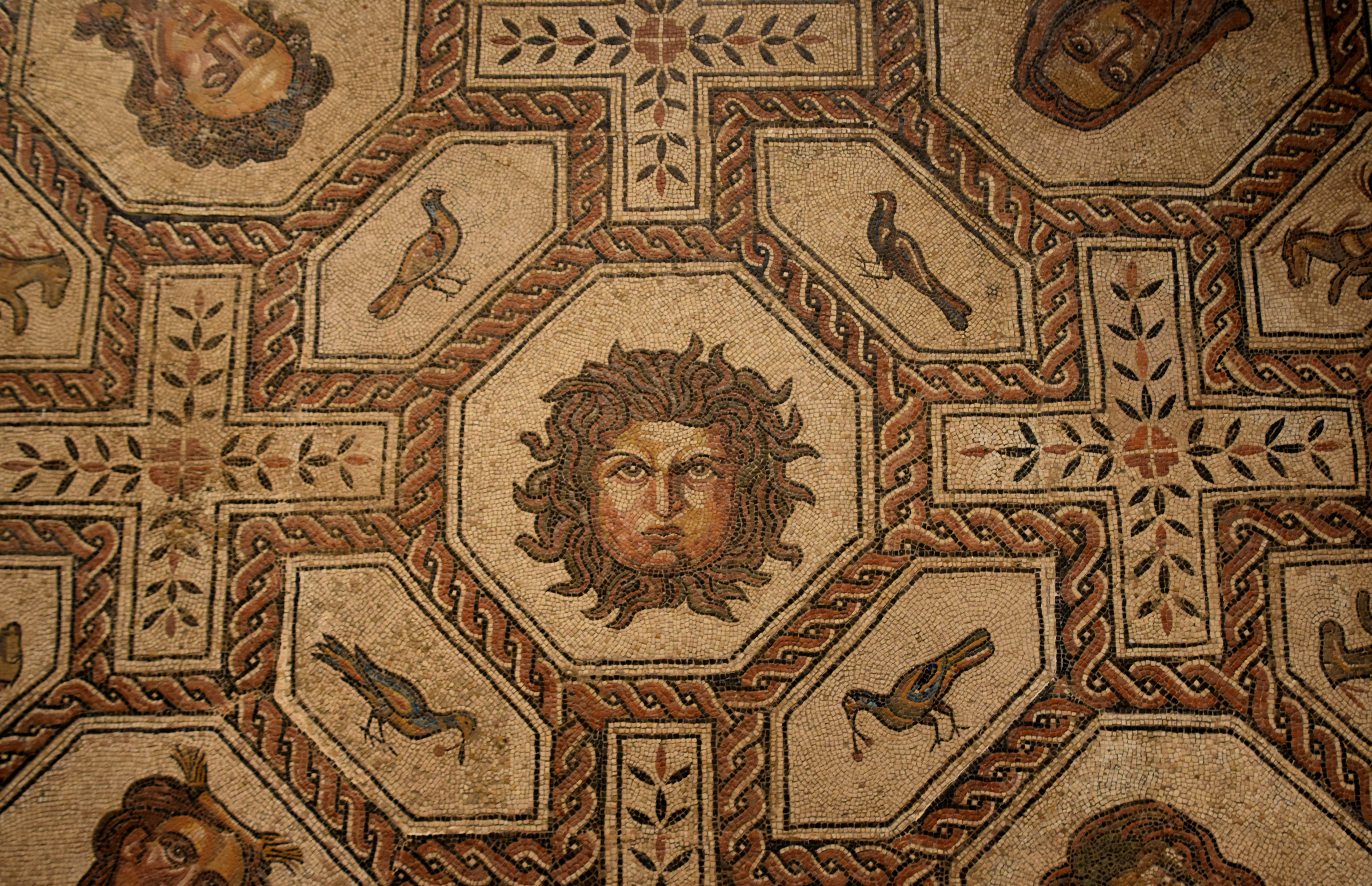 Mosaic of Medusa and the seasons, 4th cent., National Archeological Museum, Madrid (3)